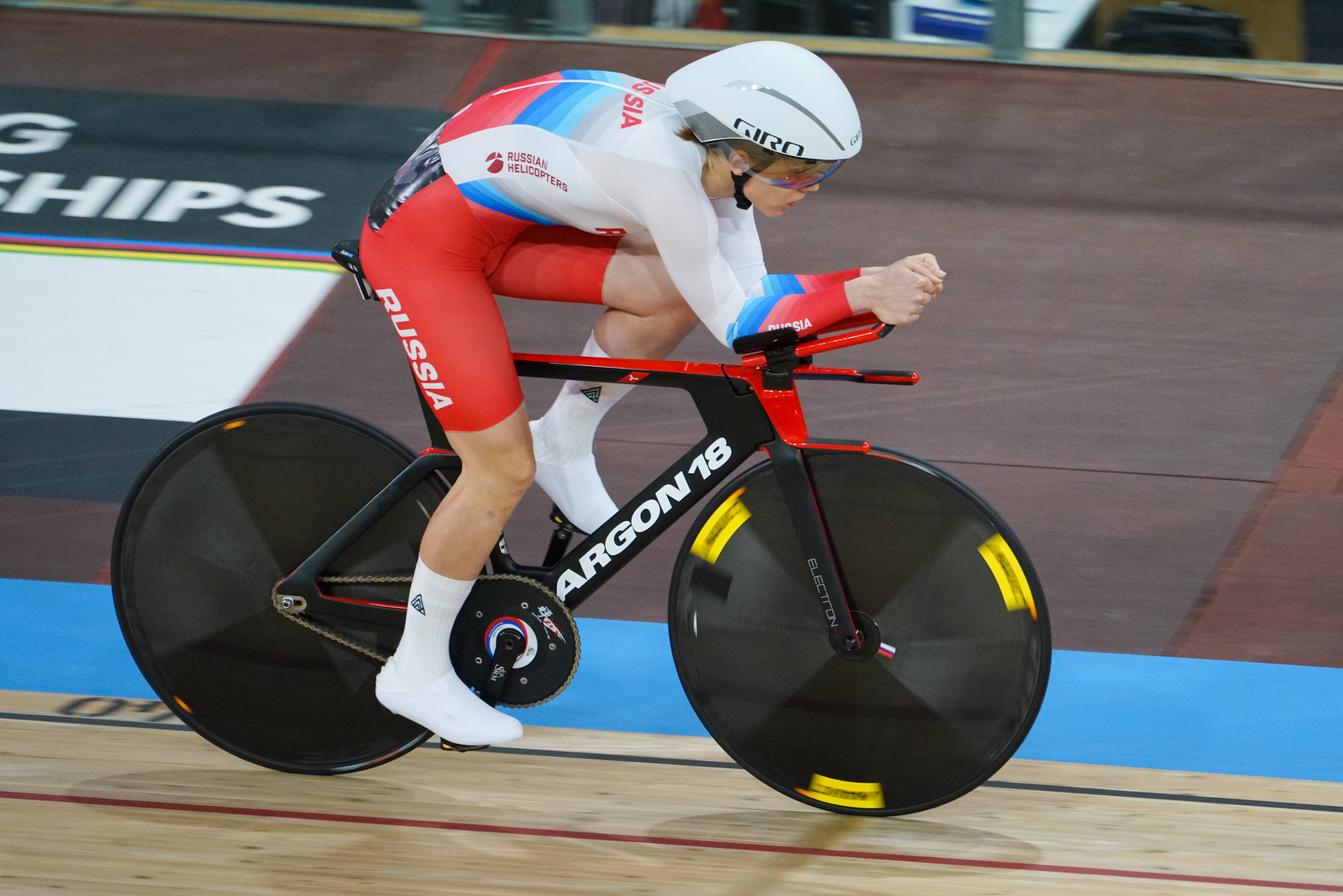 2020 UCI Track Cycling World Championships – Women's Individual Pursuit – Qualifying